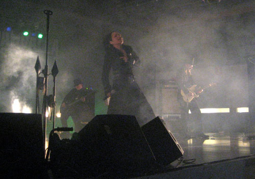 Finnish metal band Deathlike Silence